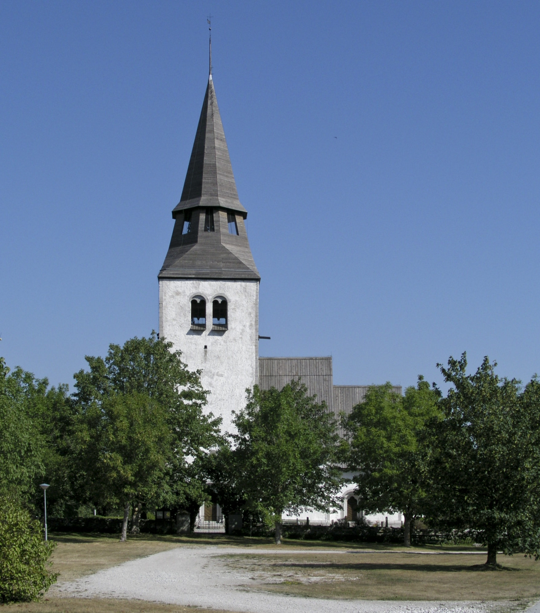 Anga church, Diocese of Visby, Gotland, Sweden. View